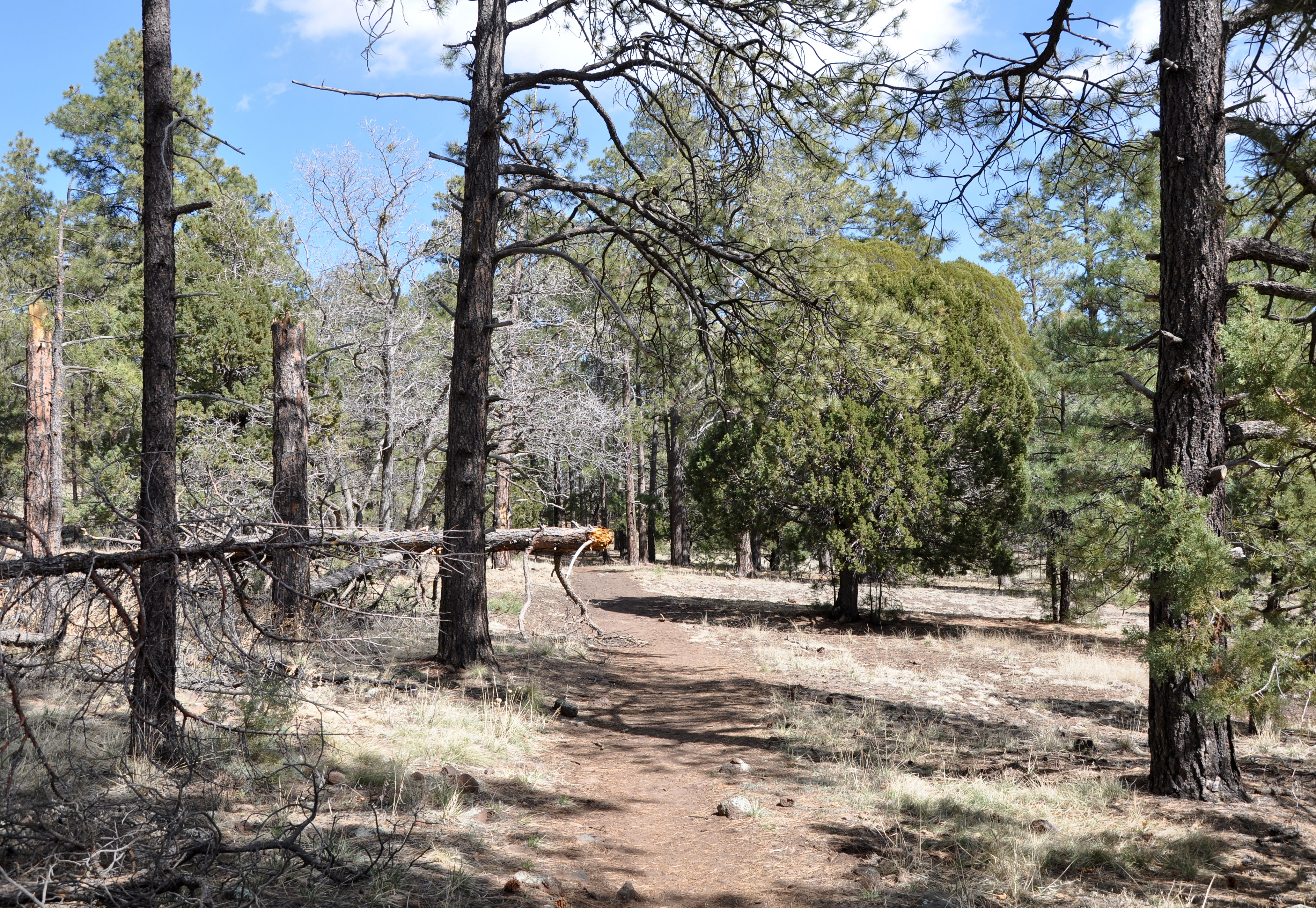 The south end of Trail 102 in the Woodchute Wilderness of west-central Arizona in the United States. (Vertical tree trunks of Ponderosa, and a stand-alone Juniper tree (?)).